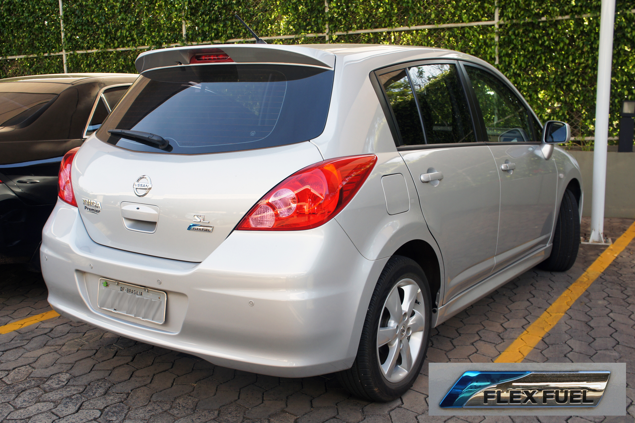 Brazilian flex-fuel version of Nissan Tiida, with flex-fuel badge inserted. Brasilia, Brazil